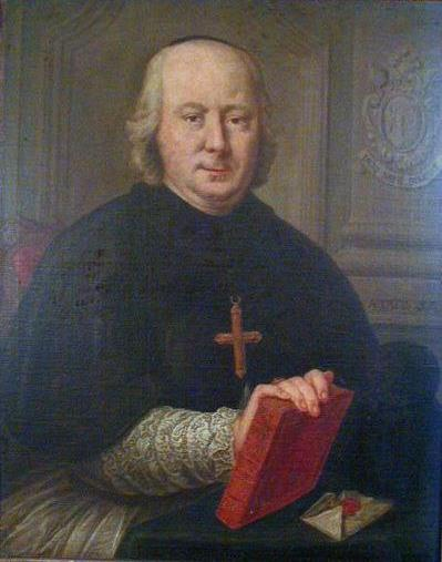 Edmond Tirant, abbot of Clairmarais Abbey